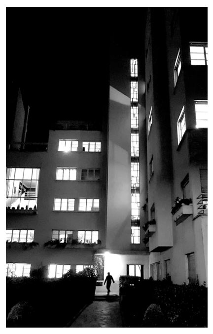 Building where Tamara de Lempicka was living